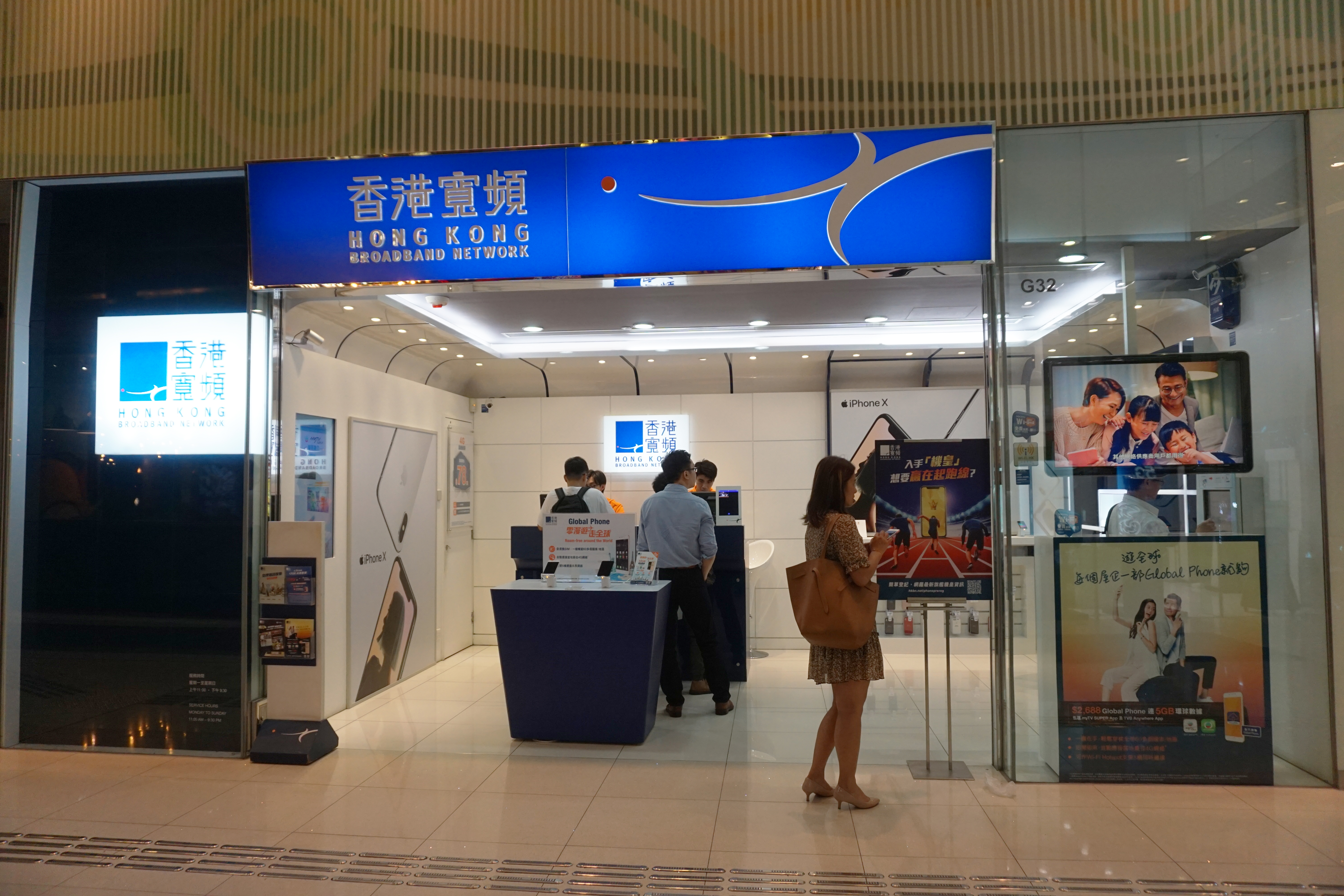 Hong Kong Boardband Network in Yau Tong, Hong Kong.